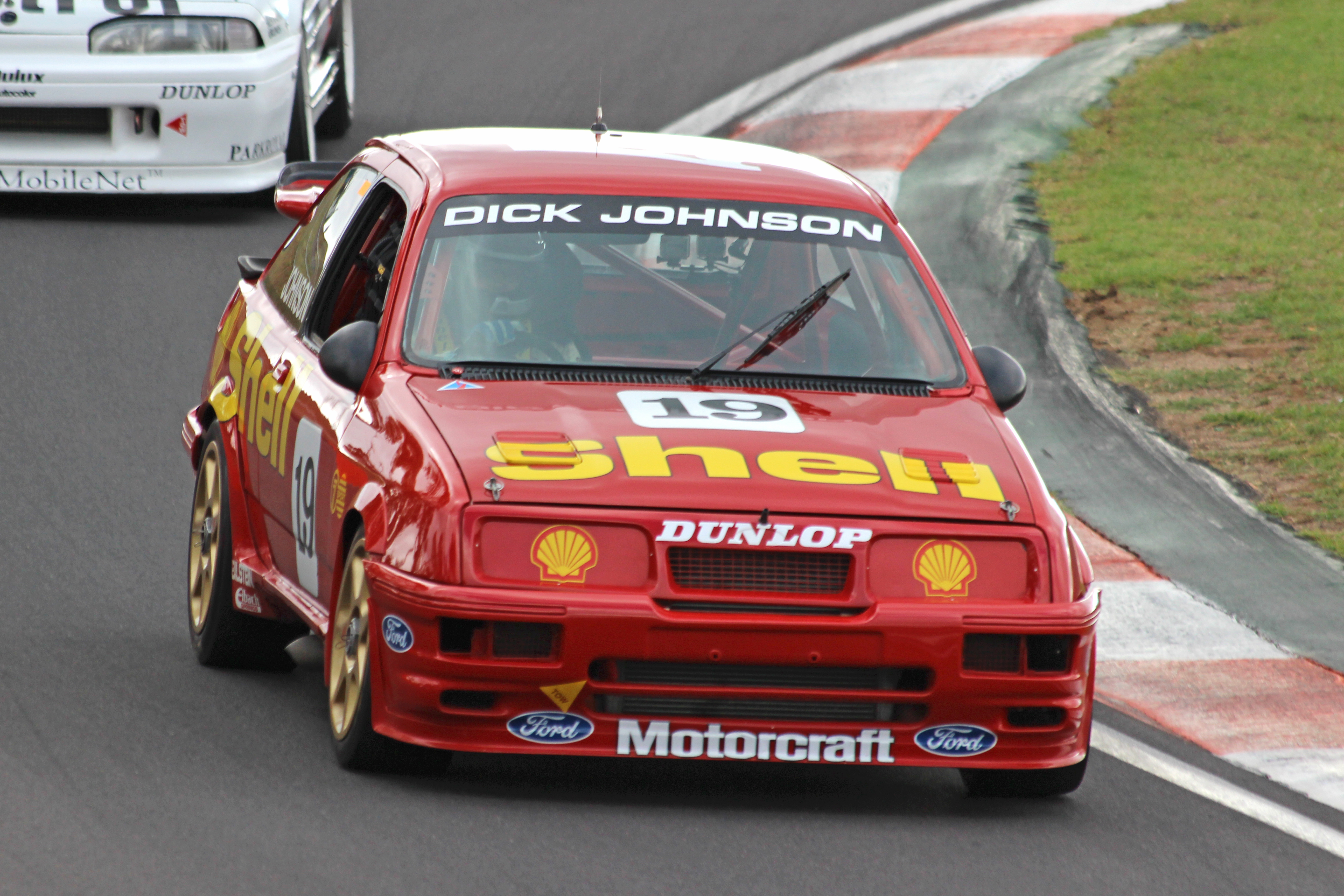 A Ford Sierra RS500 Cosworth built by Dick Johnson Racing in 1990 and campaigned in Australian touring car racing throughout 1990, 1991 and 1992. Here it is pictured competing in an historic Group C & A race at the 2015 Bathurst Motor Festival.